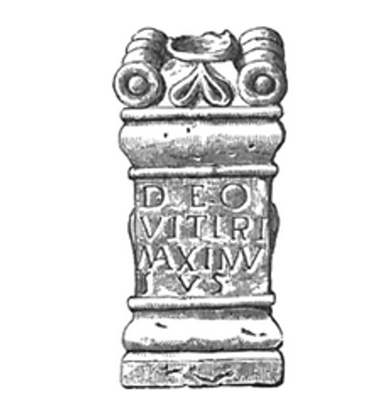 Sandstonealtar dedicated to Vitiris, found before 1722, Ebchester/Vindomora, formerly in the Chapter Library, Durham, now (1995) in the Museum of Archaeology, Durham.